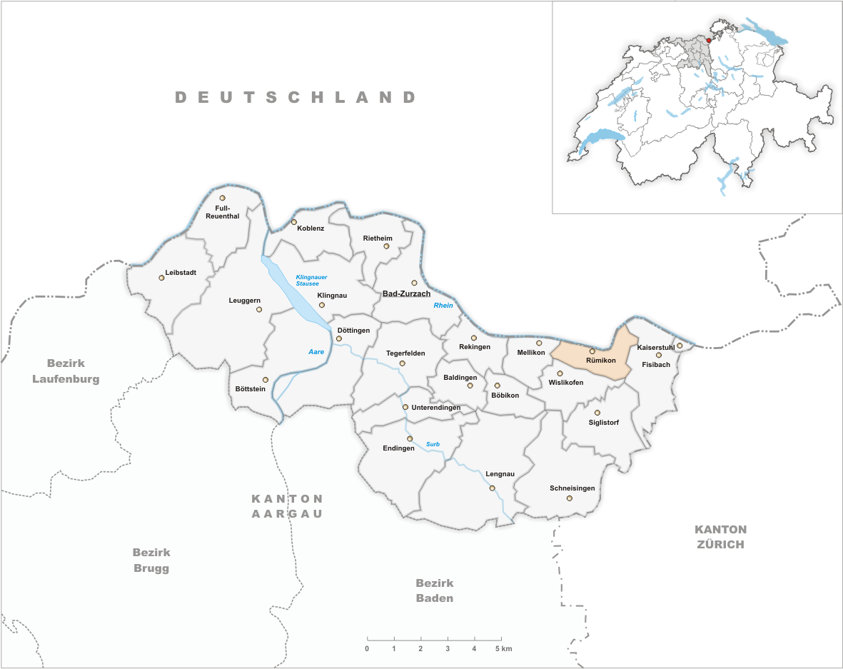 Municipality Rümikon